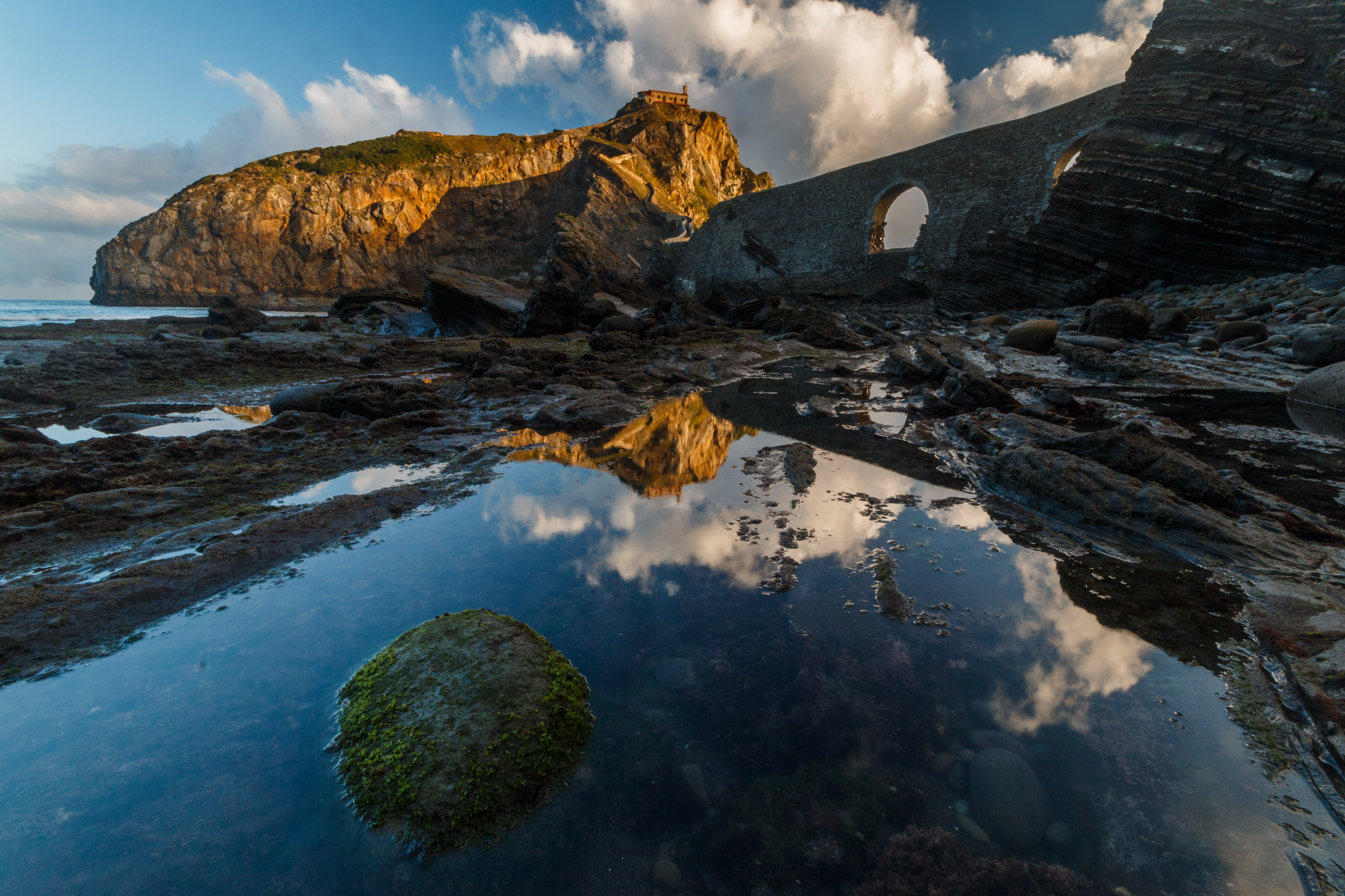 Gaztelugatxe in The Basque Country, early morning view